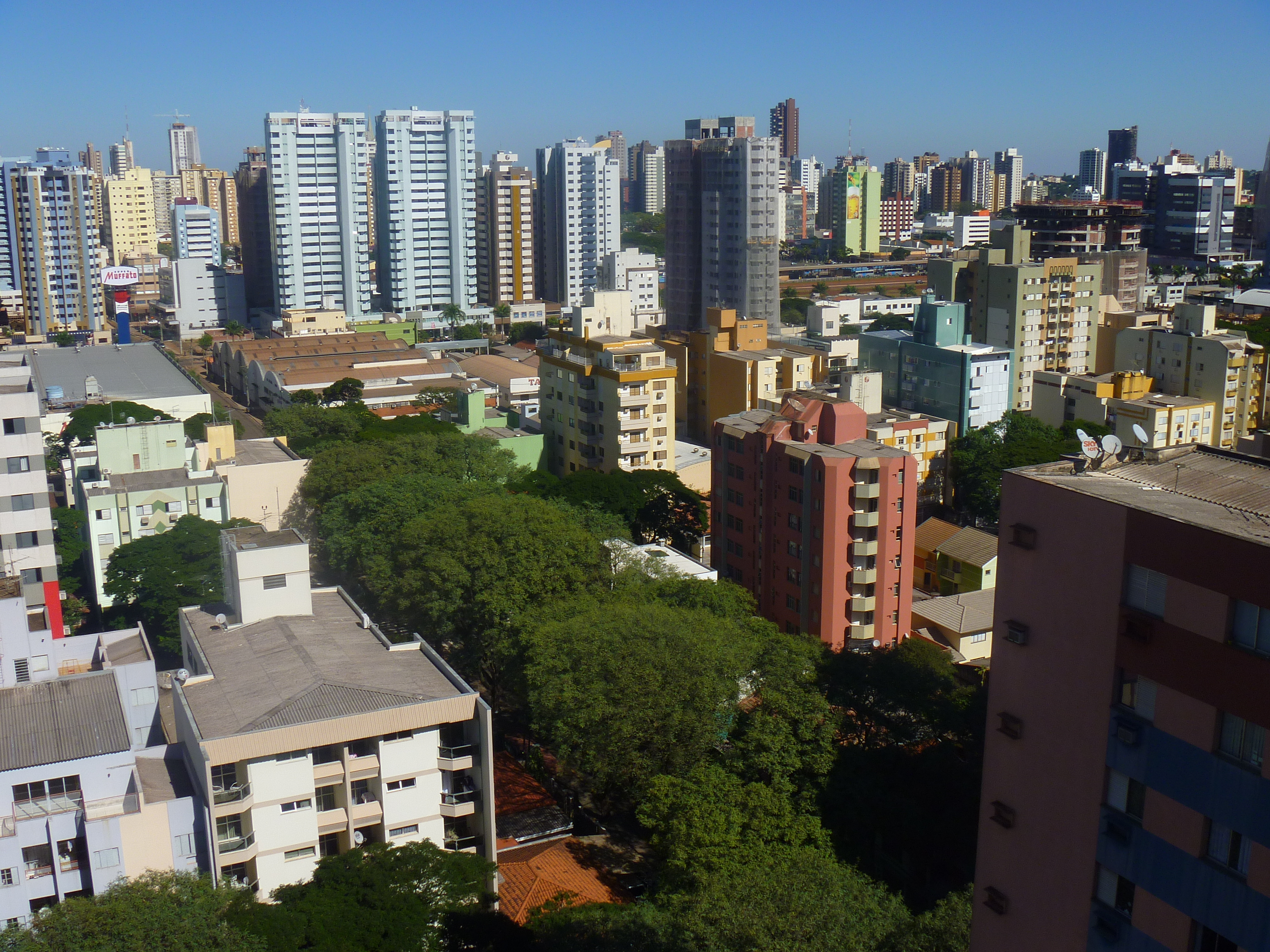 Maringa buildings bRAZIL